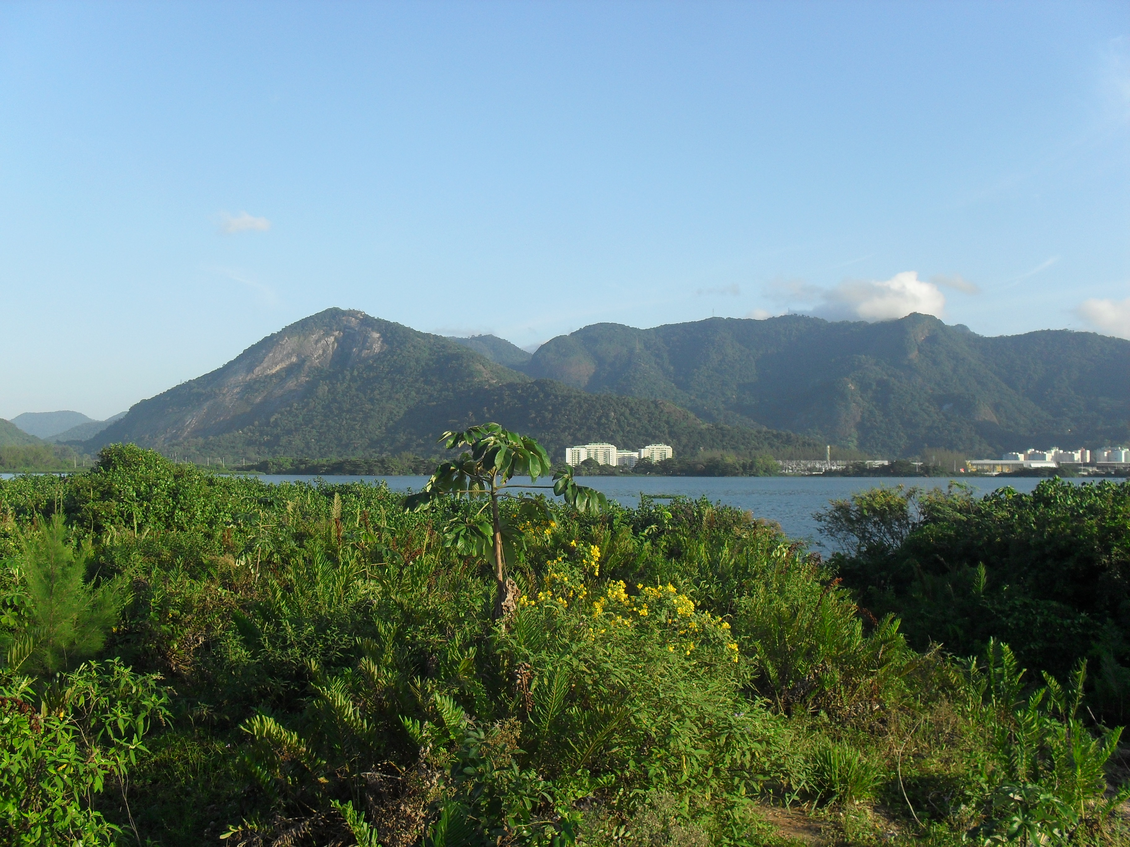 Mountains of Barra da Tijuca